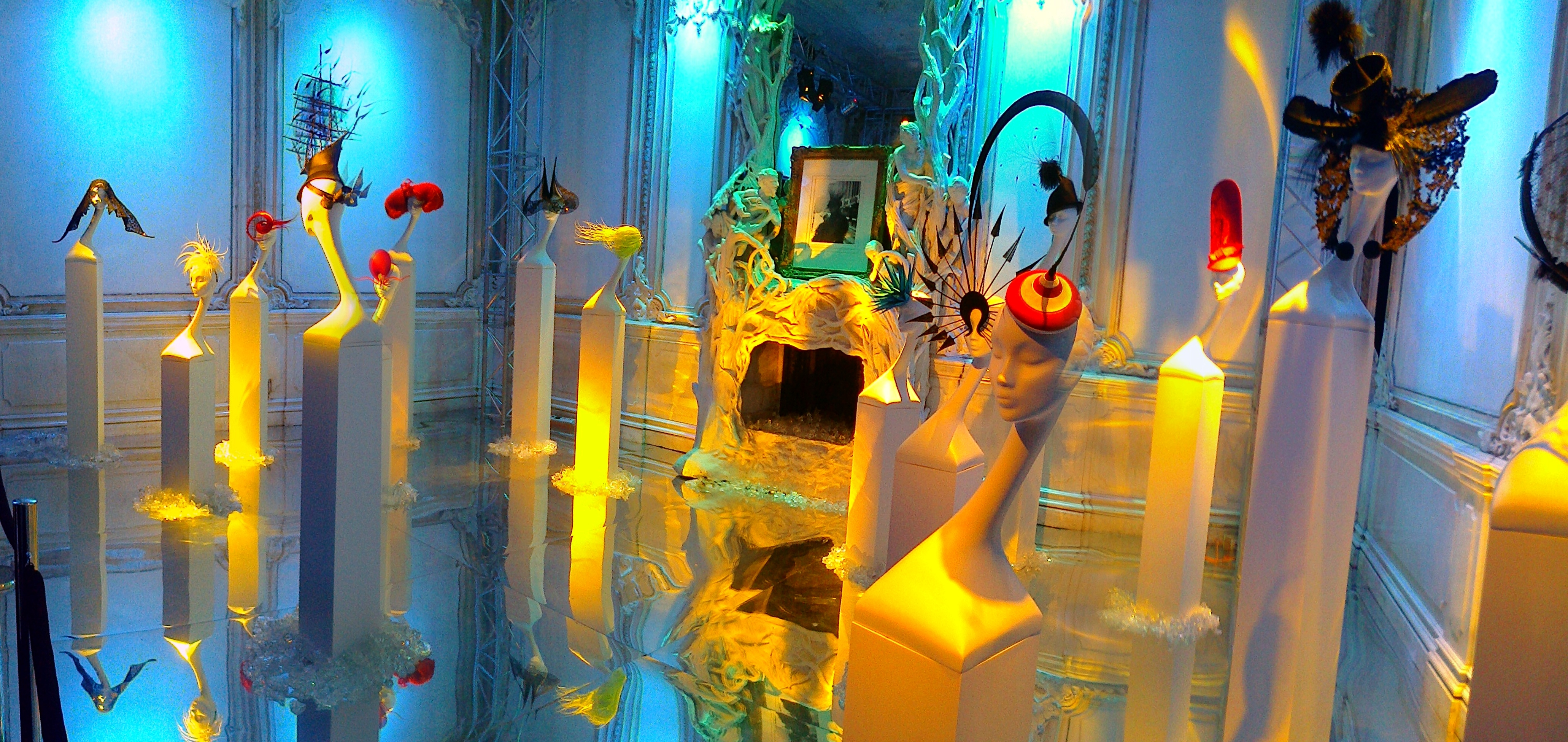 Philip Treacy's exhibition "Hats in the 21st Century" at the House of Chertkov (Myasnitskaya Street, 7). Moscow, Russia.